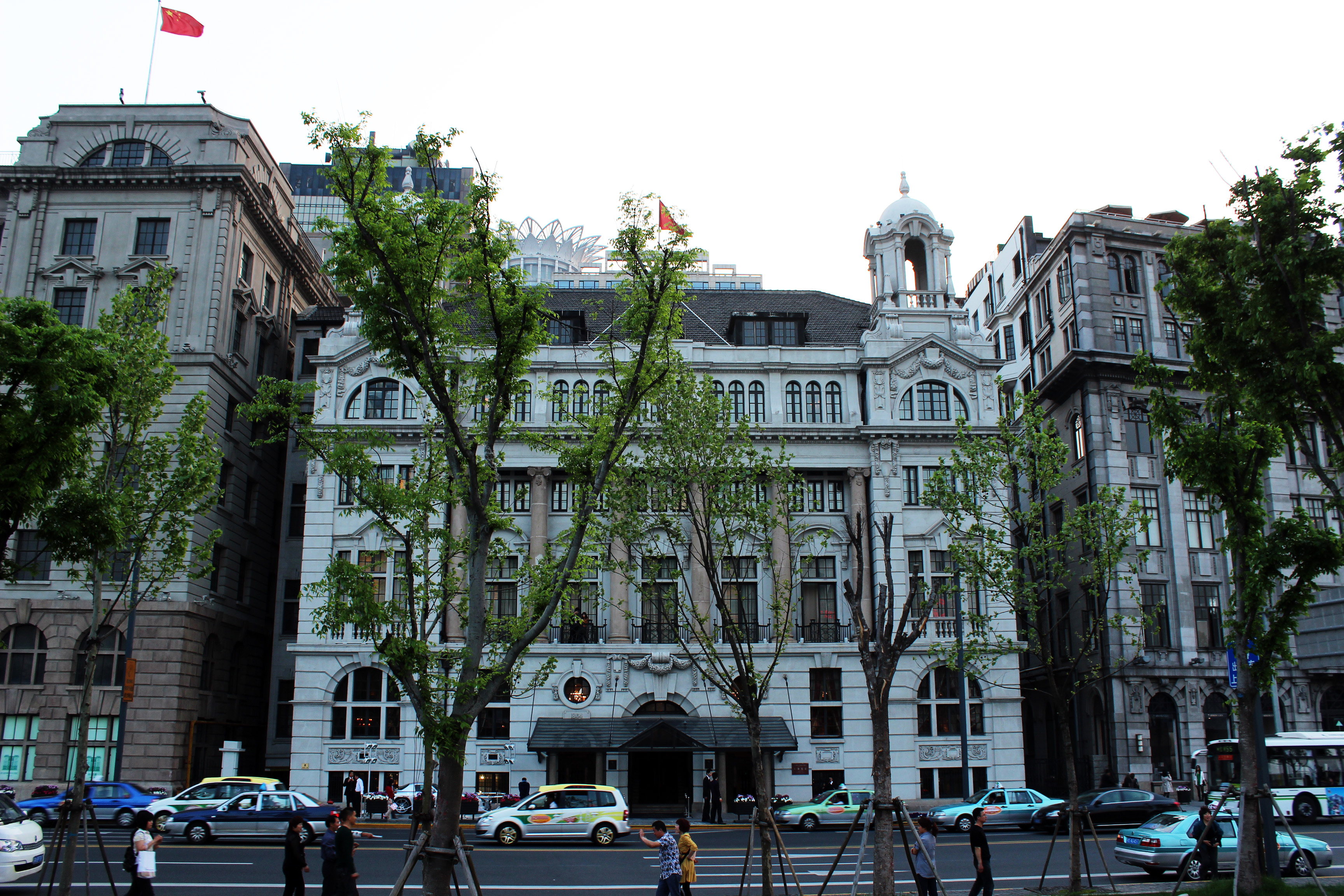 Shanghai Club, the Bund